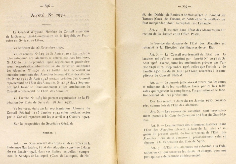 Arrete 2979 establishing the Alawite State as an Independent State, 5 December 1924